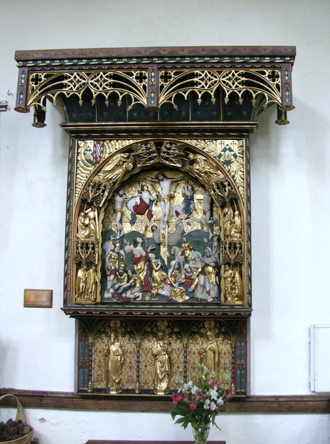 St Mary's Church, Cavendish, Suffolk. One of the most interesting things in the building is not from this church at all. It is a 16th century Flemish reredos, showing the crucifixion. It is among the most splendid art objects in all Suffolk. The whole thing is a highly animated three dimensional relief, with saints, angels and Old Testament figures looking on. It is set in a gorgeous frame by that campest of Anglo-catholic architects, Ninian Comper, most familiar from Eye. It is the sort of thing that has been whisked off to the V&A most places, so the parish here are to be congratulated on keeping it, and celebrating it. You'll find it in the north aisle.